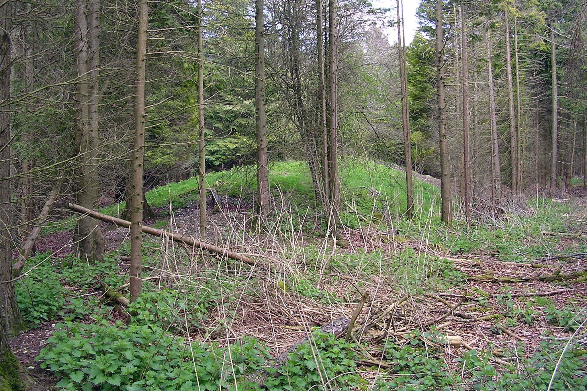 The neolithic long barrow Pentridge 4, incorporated into the NW bank of the Dorset Cursus, near Pentridge, Dorset